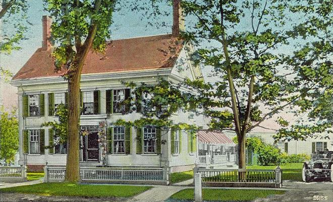 Harriet Beecher Stowe House, Brunswick, ME; from a c. 1915 postcard. Here between 1850 and 1852 was written Uncle Tom's Cabin.